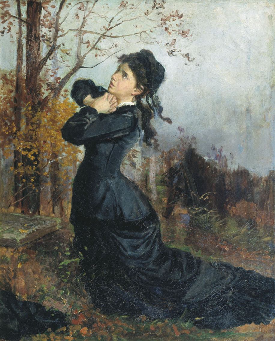 The Young Widow at the Grave of Her Husband by Nikolay Chekhov.